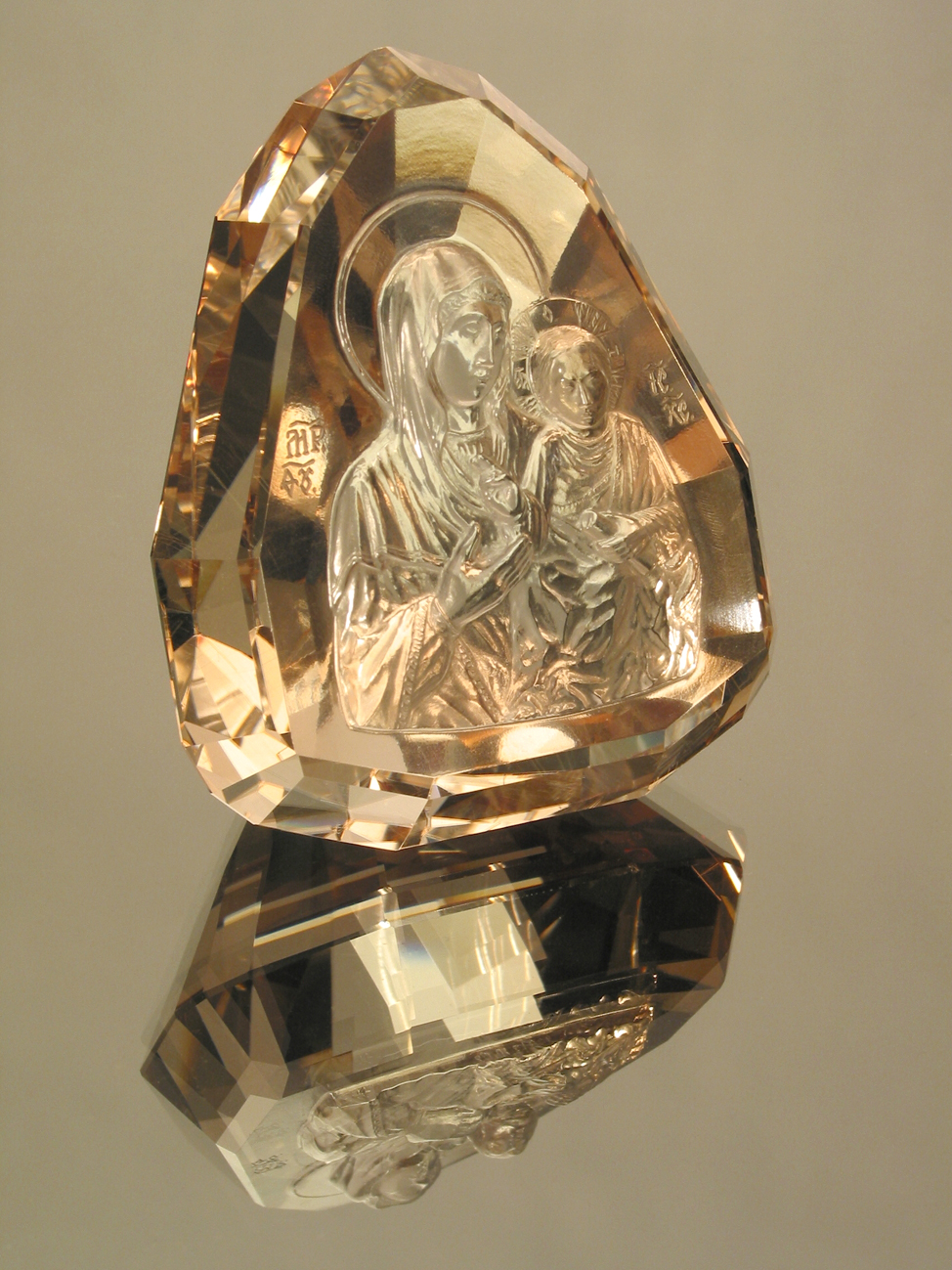 Cameo "Hodegetria" on a faceted topaz by Sviatoslav Nikitenko